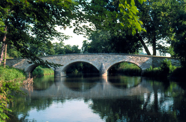 Burnside's Bridge, Sharpsburg, MD, was named after Union General Ambrose Burnside who commanded the Ninth Corps at Antietam, Battle of Antietam - September 17, 1862. His soldiers made repeated attacks against the small force of Confederates who defended this crucial Antietam Creek crossing.